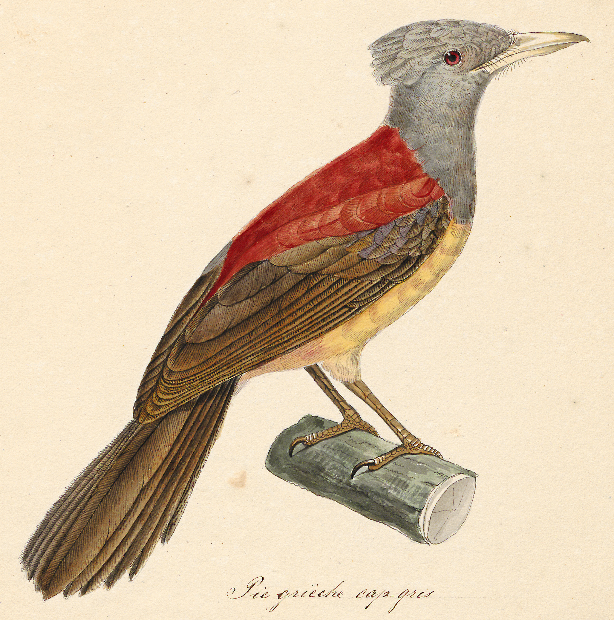 Pitohui kirhocephalus illustrated by Duperrey, Voyage autour du monde ... sur la corvette ... La Coquille, pl. 11. 1825-1839